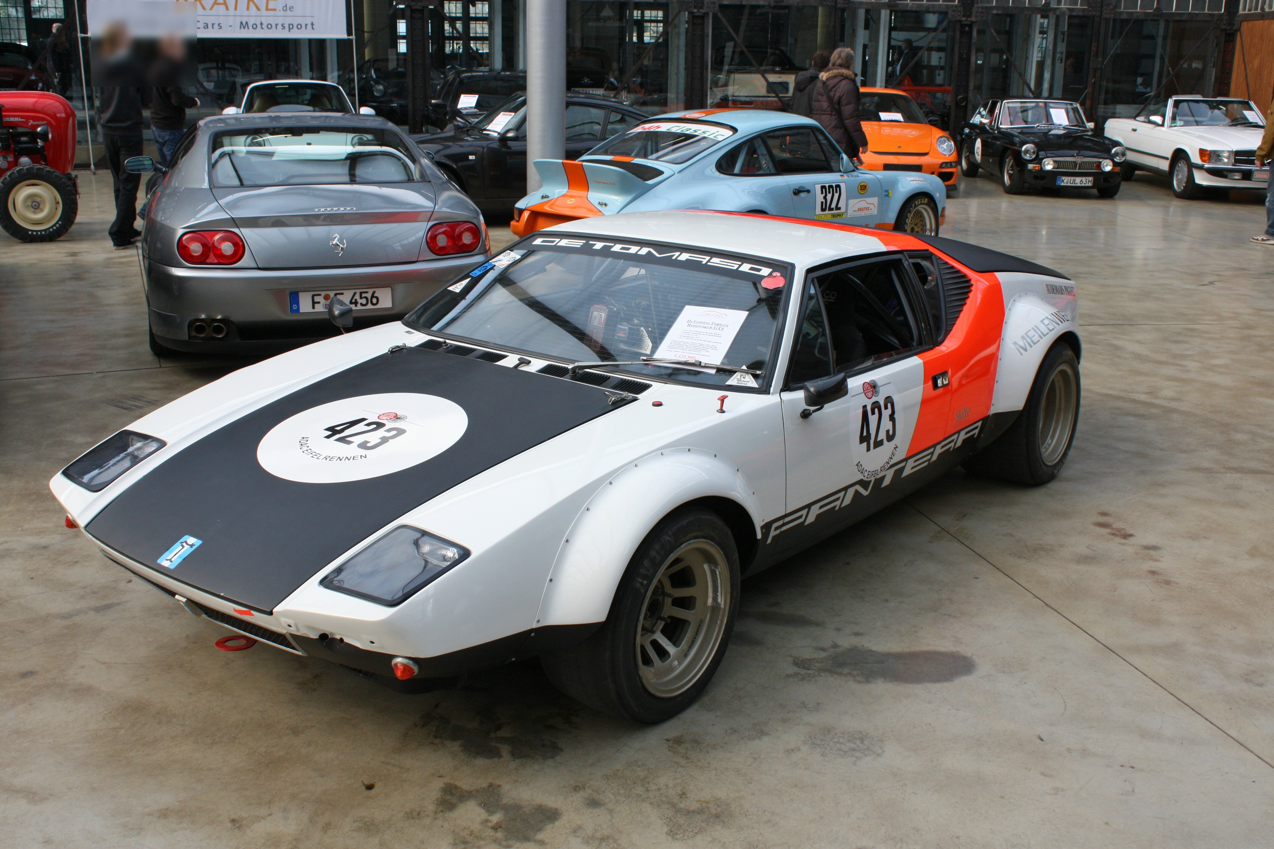 De Tomaso Pantera GTS, Group 4 racecar, 377 kw engine, 1972, seen at CLASSIC REMISE, Duesseldorf, Germany